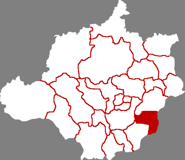 Location of Gaoyang county in Baoding City, China